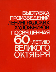 Cover of the catalog of Exhibition of works by Leningrad artists of 1977